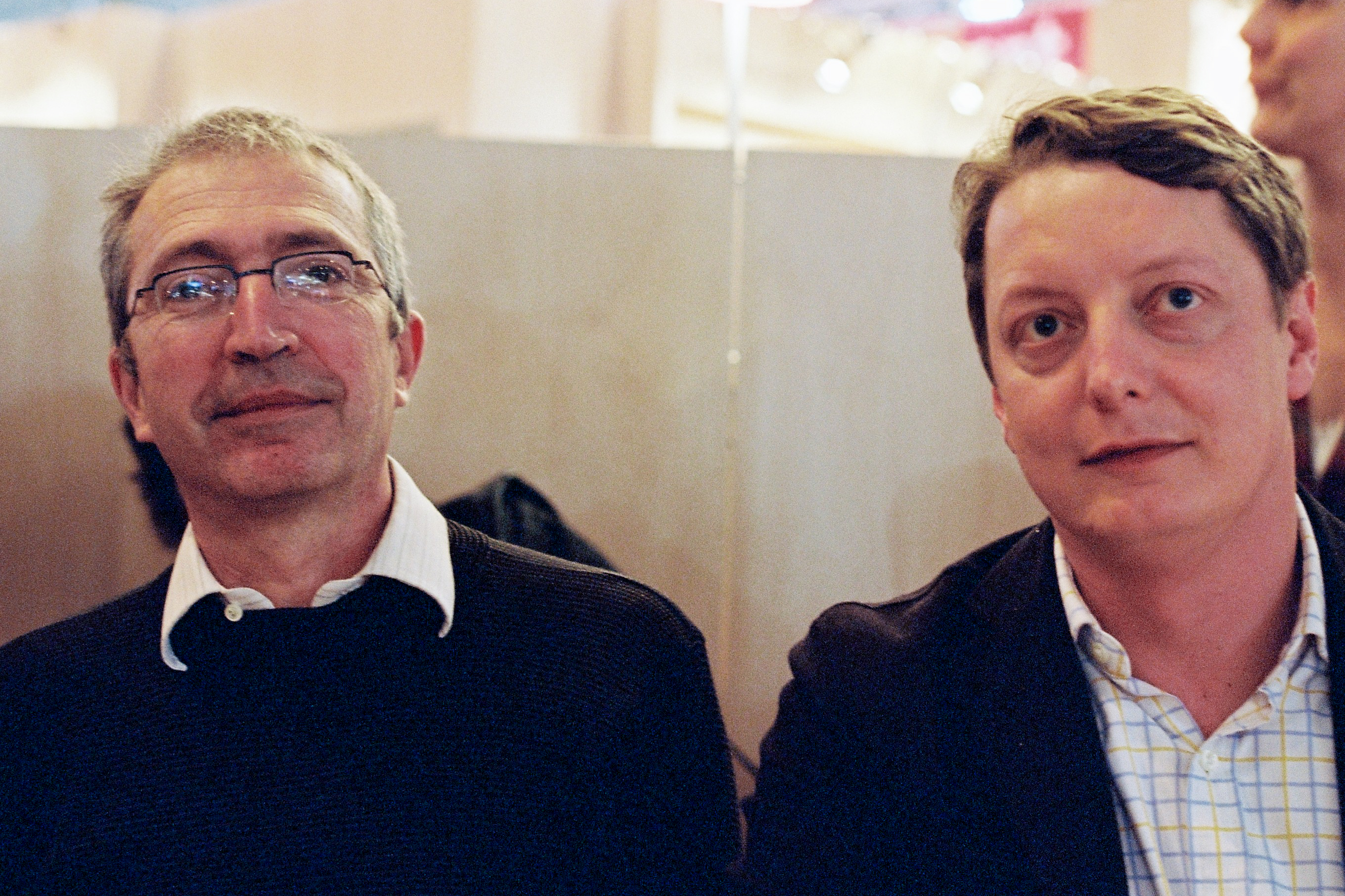 french authors